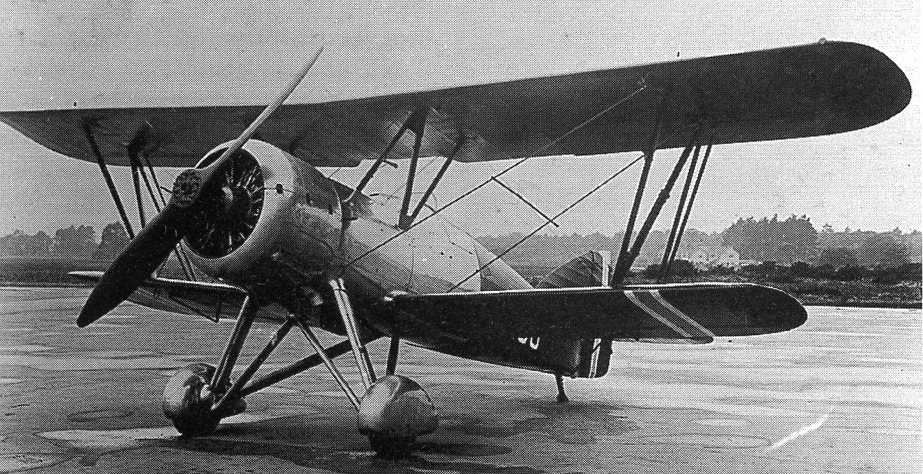 Armstrong Whitworth Scimitar. One of four for the Norweigian Army Air Services, September 1935.